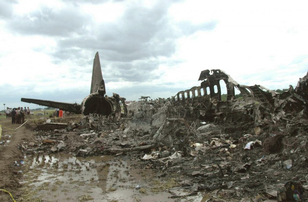 Garuda Indonesia Airways Flight 200 wreckage